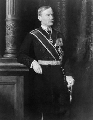 Portrait painting of Sir Henry McMahon (1862–1949).